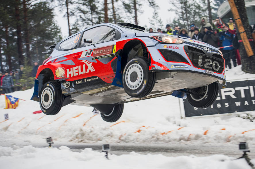 Rally Sweden 2014 Colin's Crest Arena,Hyundai Motorsport,Hyundai i20 WRC,Juho Hänninen,Motorsport,Rally,Rally Sweden,Rallye,Rallye Schweden,SS19,Tomi Tuominen,Vargäsen 1,WP19